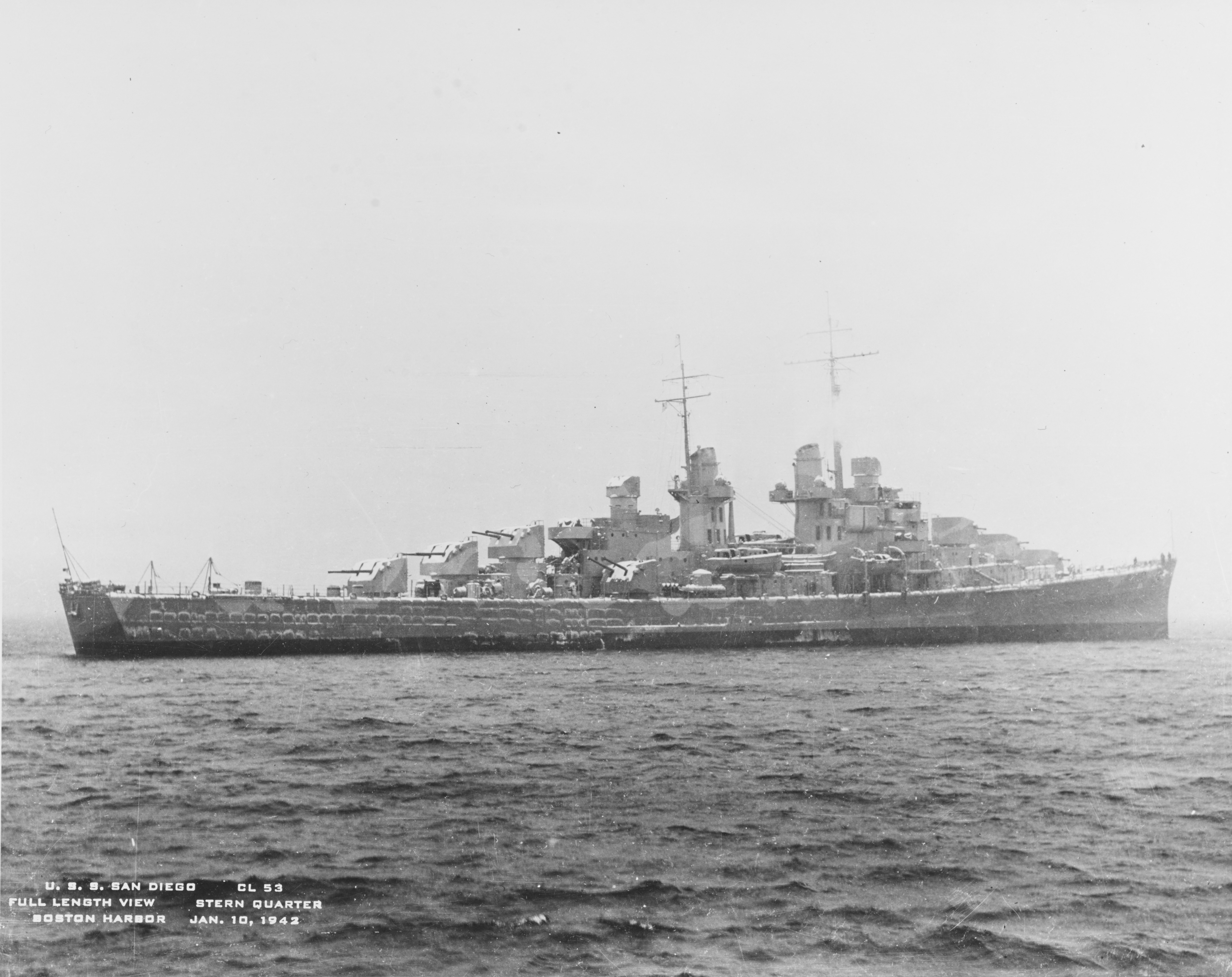 The U.S. Navy light cruiser USS San Diego (CL-53) in Boston Harbor, Massachusetts (USA), on 10 January 1942. Note ice and snow on the ship.Photograph from the Bureau of Ships Collection in the U.S. National Archives.